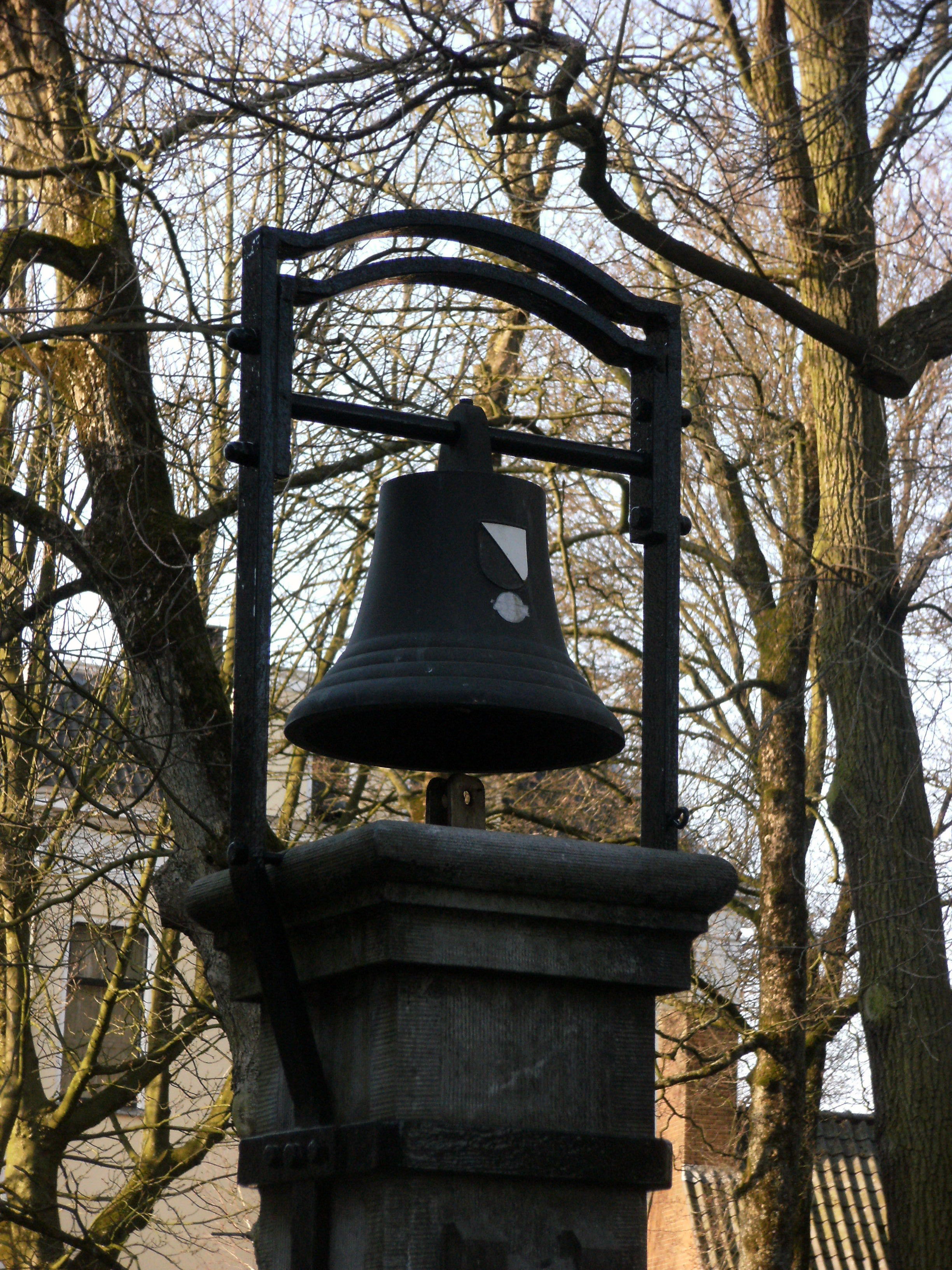 2013-04-01 in Utrecht.